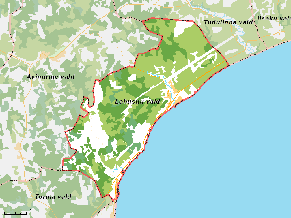 Map of municipality in Estonia